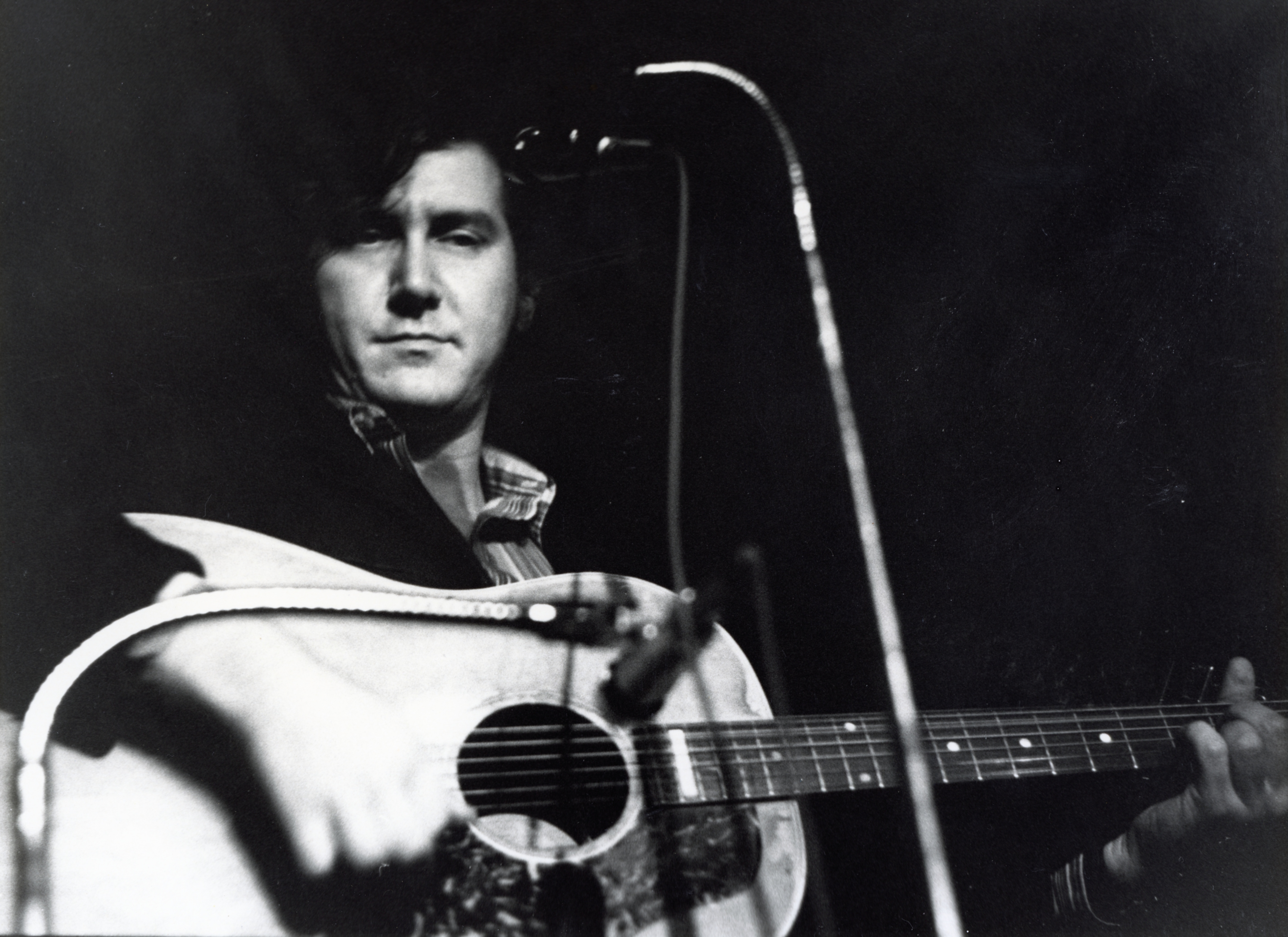 Phil Ochs